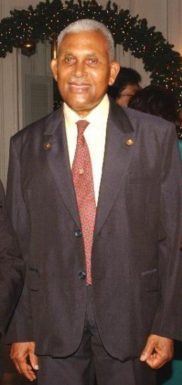 Sampson Nanton and former President of the Republic of Trinidad and Tobago, Arthur N.R. Robinson